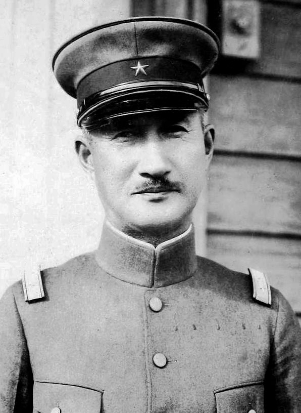 Portrait of Count Hisaichi Terauchi as Lieutenant General (2 stars on his epaulettes). The photo was taken most likely before October 1935. Promoted to full General in October 1935 then Field Marshal on 6 June 1943. Commander of the Japanese Northern China Area Army (26 August 1937 - 9 December 1938). Commander of the Southern Expeditionary Army Group (6 November 1941 - 31 August 1945).